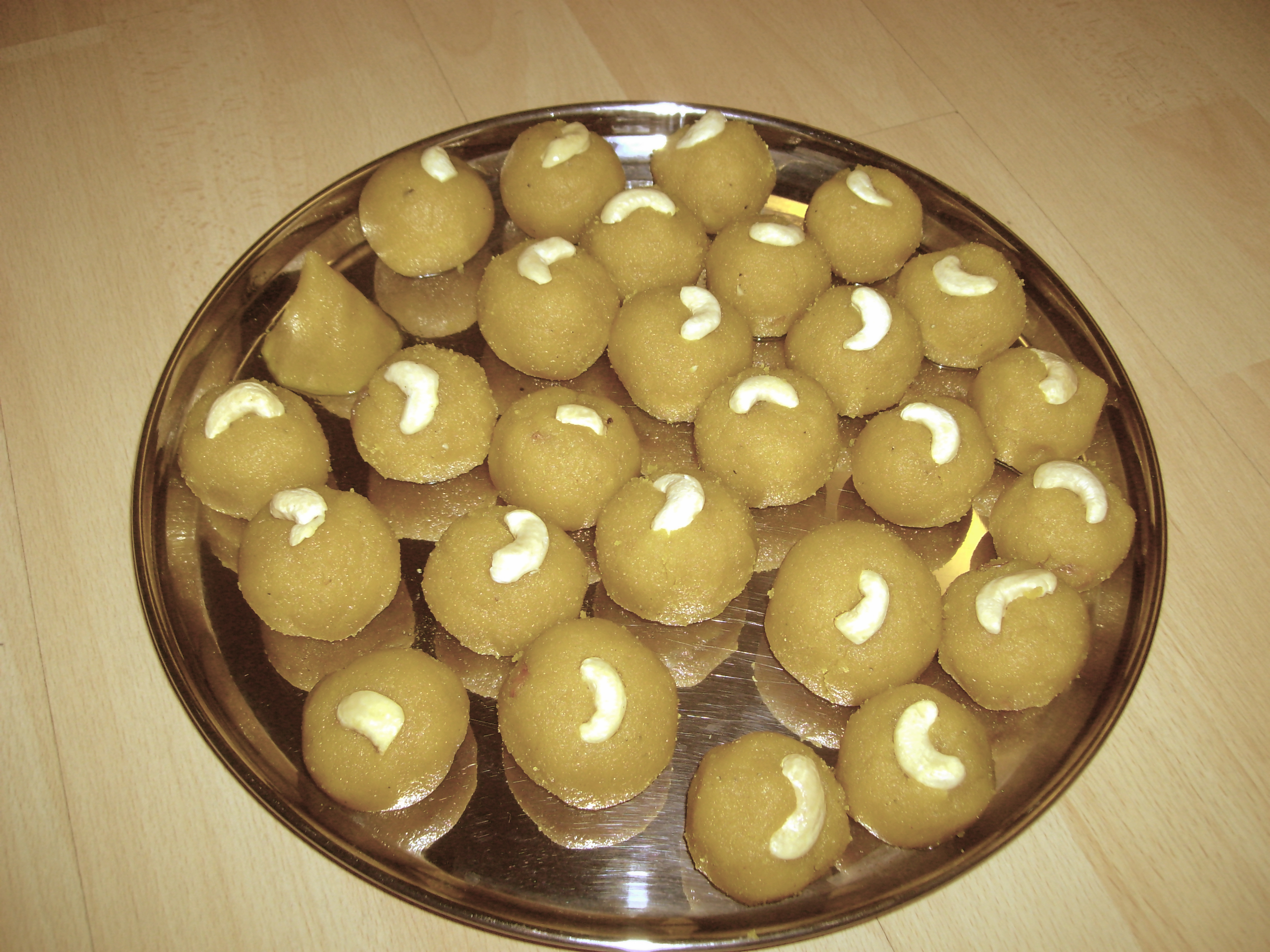 Photograph of 'Besanache Ladu(/Ladoo)' - a sweet from Maharashtra.